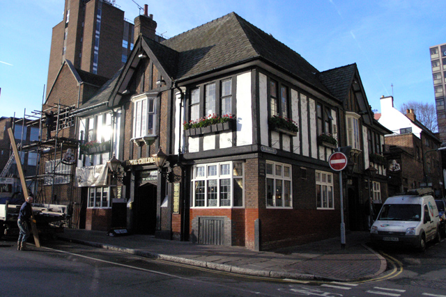 The "Royal Children", Nottingham. This pub was a Home brewery tied-house it then consisted of three or four separate rooms - it is now "open-plan". It stands on the corner of Castle Gate and St Nicholas Street. The entrance from Castle Gate (just left of centre in the picture) used to be surmounted by a whale bone, this has now been moved inside as it was deteriorating rapidly. See 658539 The name is derived from a connection with the grand-children of James II. For more on this see here: The pub's own web site is here: It can also be seen in one of Alan Murray-Rust's sequence of all the "Gates of Nottingham" 336783